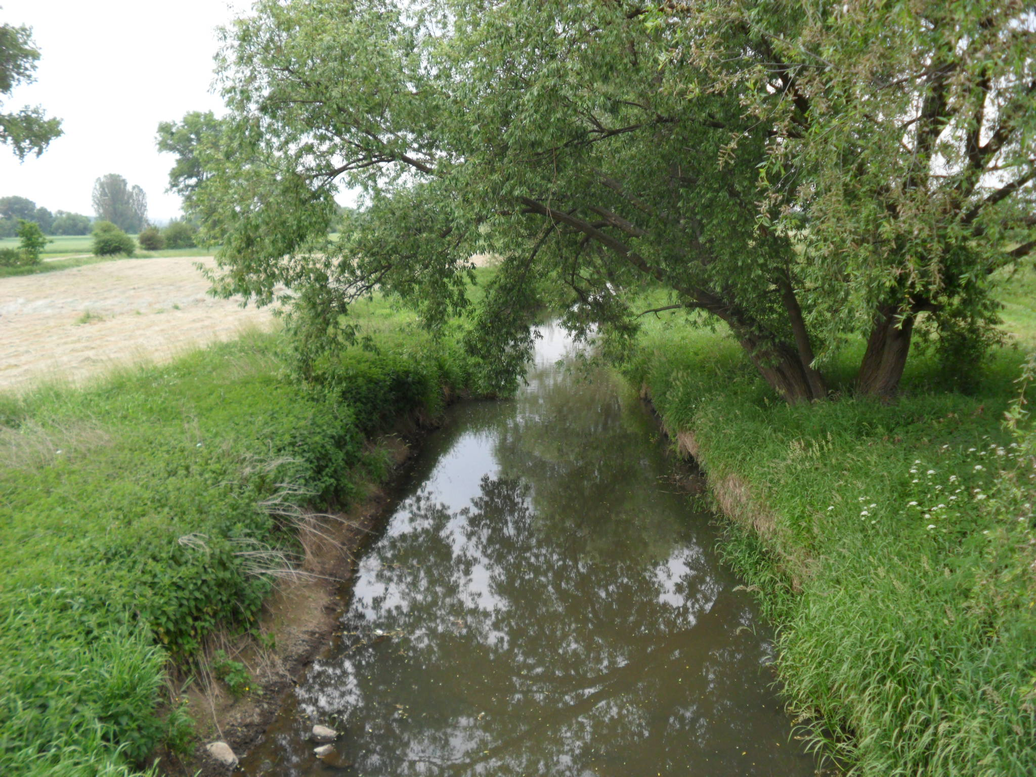 Oława (river) in Wiązów